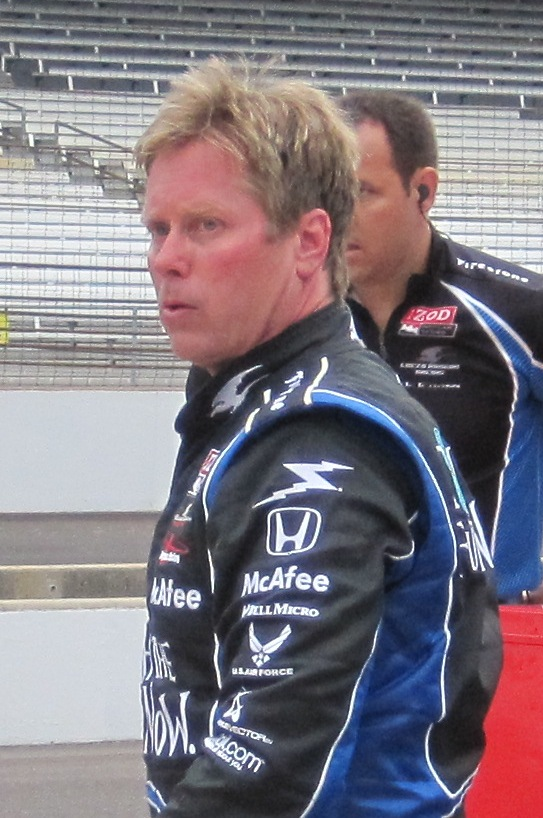 de Ferran Dragon Racing's Davey Hamilton at the Indianapolis Motor Speedway for day 2 of practice for the 2010 Indianapolis 500 on Sunday, May 16, 2010.